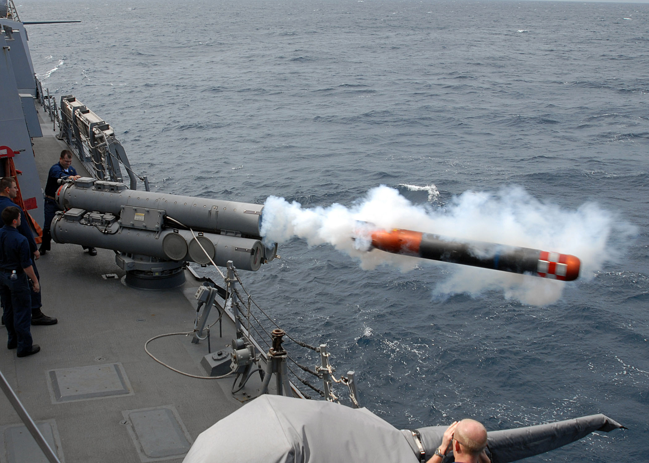 PACIFIC OCEAN (Feb. 21, 2008) Weapons department personnel launch an inactive torpedo off the port side of the Arleigh Burke-class guided-missile destroyer USS Mustin (DDG 89). The launch was part of a training exercise. Mustin is attached to Destroyer Squadron (DESRON) 15 and permanently forward deployed to Yokosuka, Japan. U.S. Navy photo by Mass Communication Specialist 2nd Class Derek J. Hurder (Released)